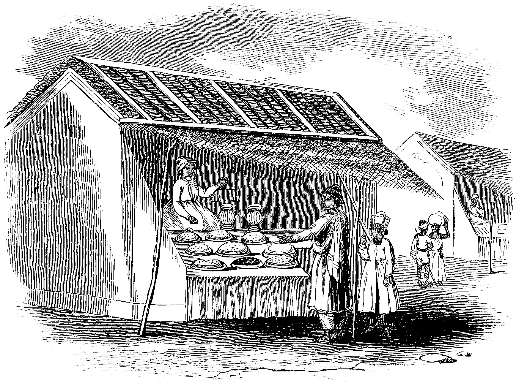 In our illustration (from a painting by a Hindu artist) we have a representation of one of these little bazaar shops, which only needs to be continued by an indefinite number of similar structures, to give an idea of a bazaar. The salesman sits on a level with his goods, which are arranged before him to the best advantage, with his scales in hand, intent on a sale. The father is engaged in the arduous work of reducing the price to the lowest possible amount, while his son stands by in his starched linen cap and school dress, an interested spectator, as the purchase is of confectionary, a class of wares in great esteem with Hindu boys.